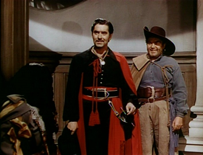 Tyrone Power and Thomas Mitchell in a screenshot from the trailer for the film The Black Swan.